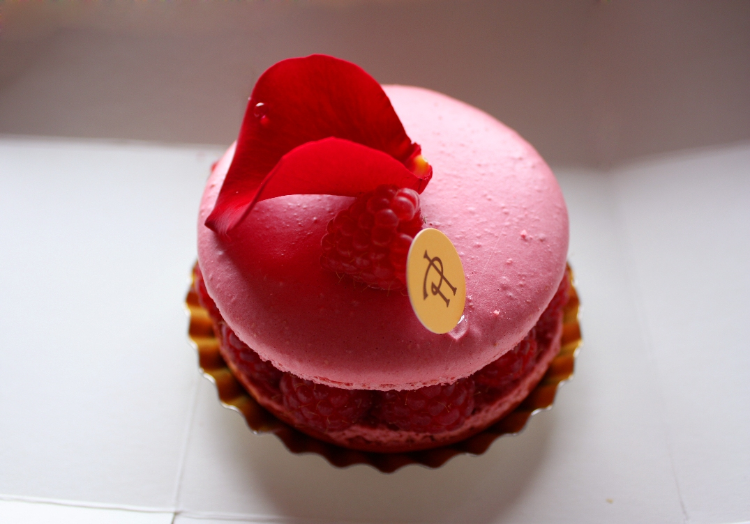 Ispahan macaroon with raspberry and petal.